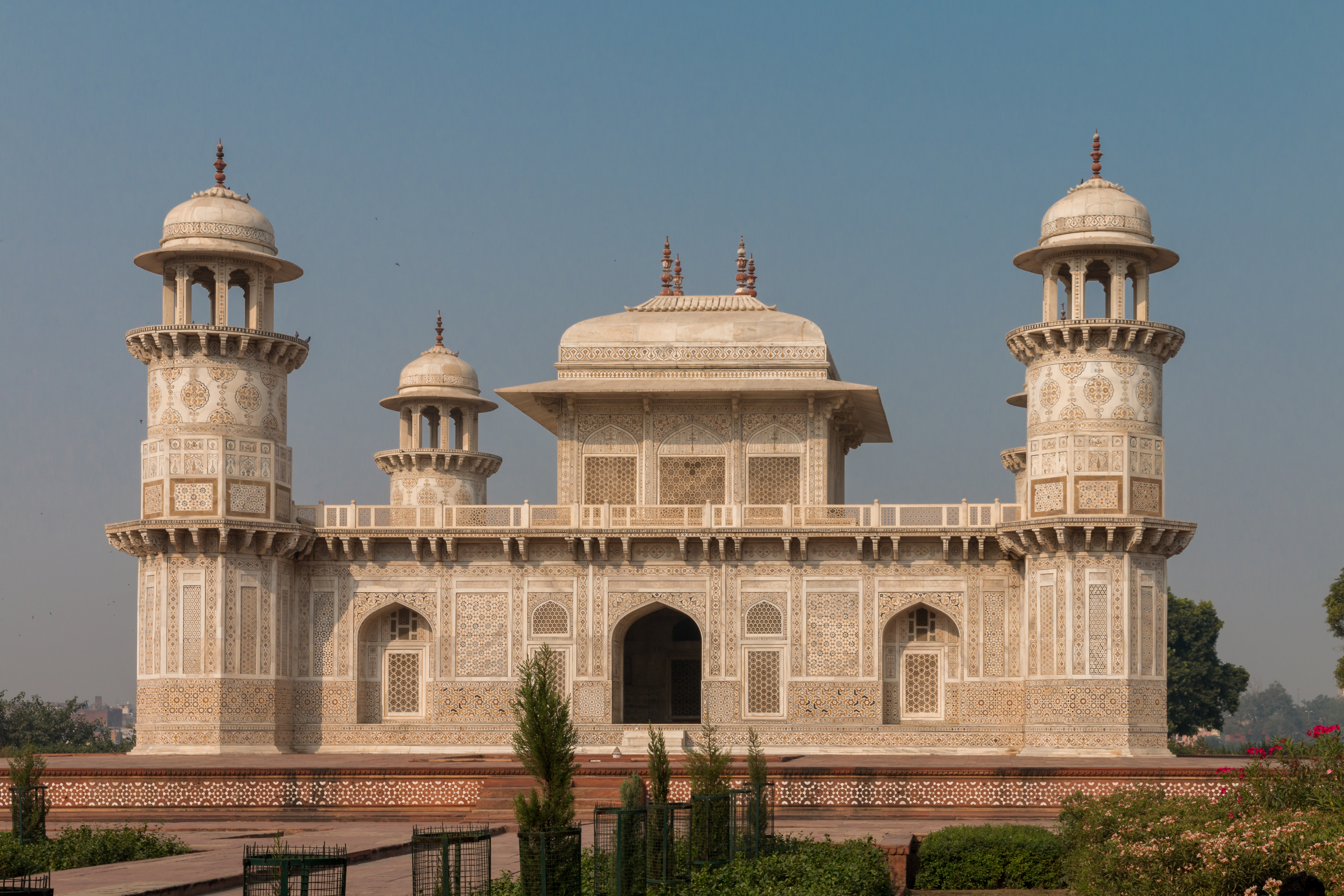 Tomb of I'timād-ud-Daulah